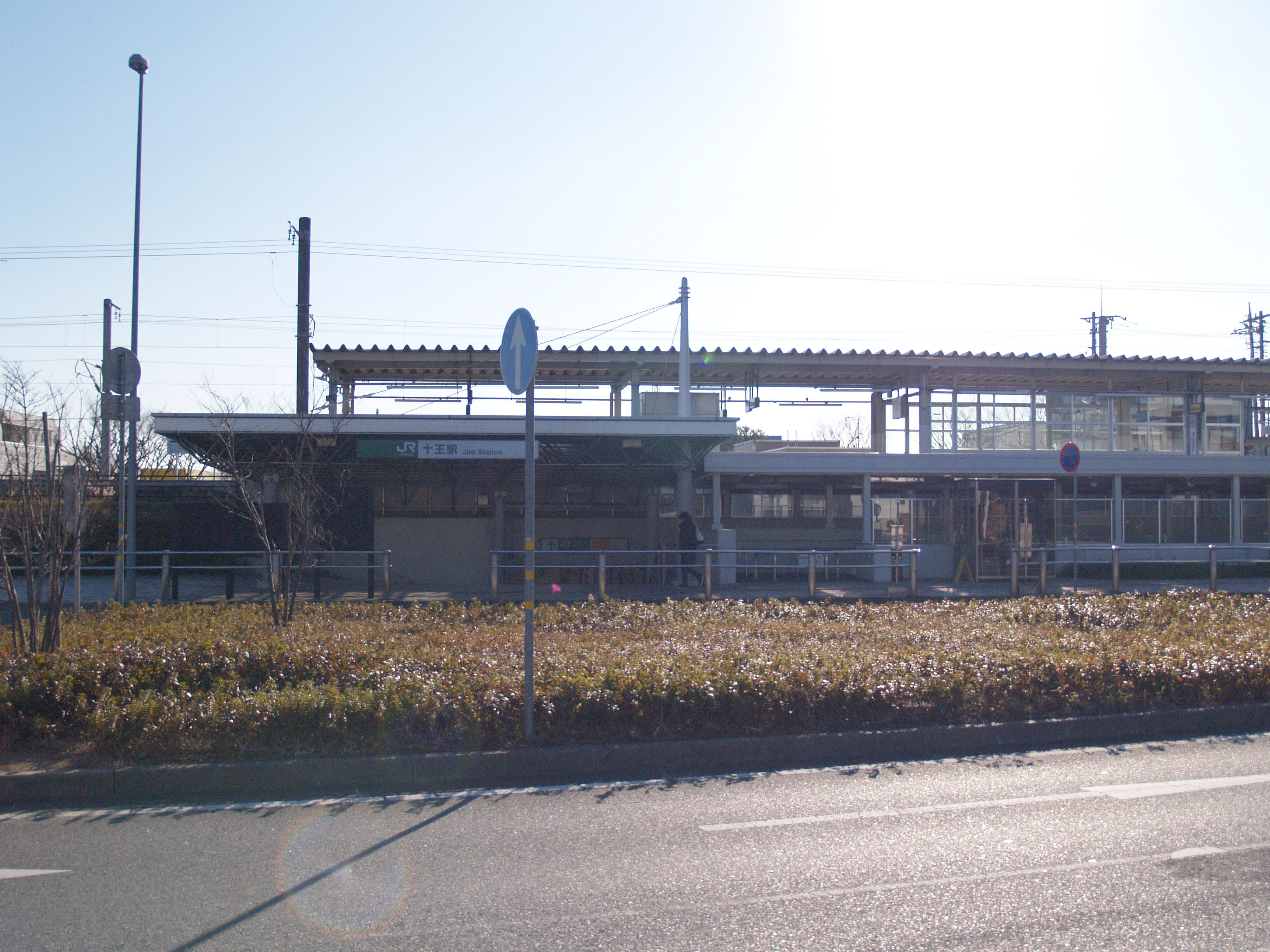 West Entrance of Jūō Station